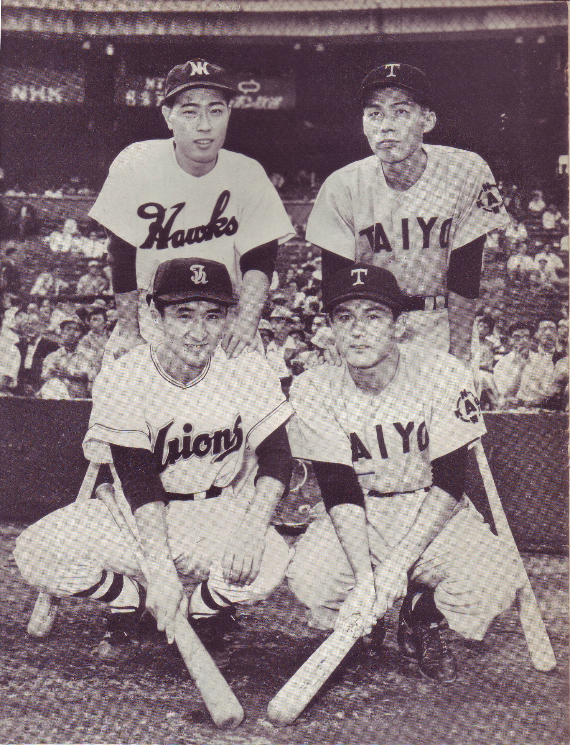 Four people of Japan professional baseball rookie player (1956).Keiji Osawa (Nankai Hawks. Upper left), Noboru Akiyama (Upper right), Shin'ya Sasaki (Takahashi Unions. Lower left), Kiyoshi Doi (Taiyo Whales Lower right).